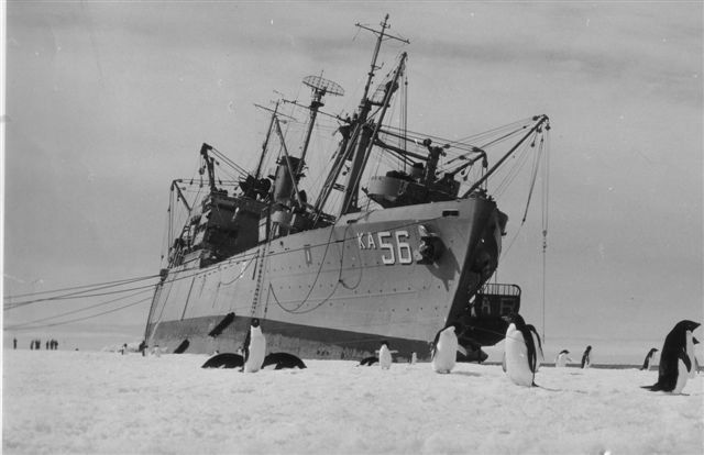 The U.S. Navy attack cargo ship USS Arneb (AKA-56) in Antarctica during "Deep Freeze '57". Arneb had been damaged due to the ice pressure on 31 December 1956. On 3 January 1957, the ice pack had loosened and enabled the ice breaker USS Northwind (AGB-5) to lead the battered Arneb into port. After unloading the cargo, the crew repaired the cracks and split seams by listing the ship alternately to port and to starboard. Although having suffered a bent rudder post and a broken propeller blade, Arneb was able to continue the operation.